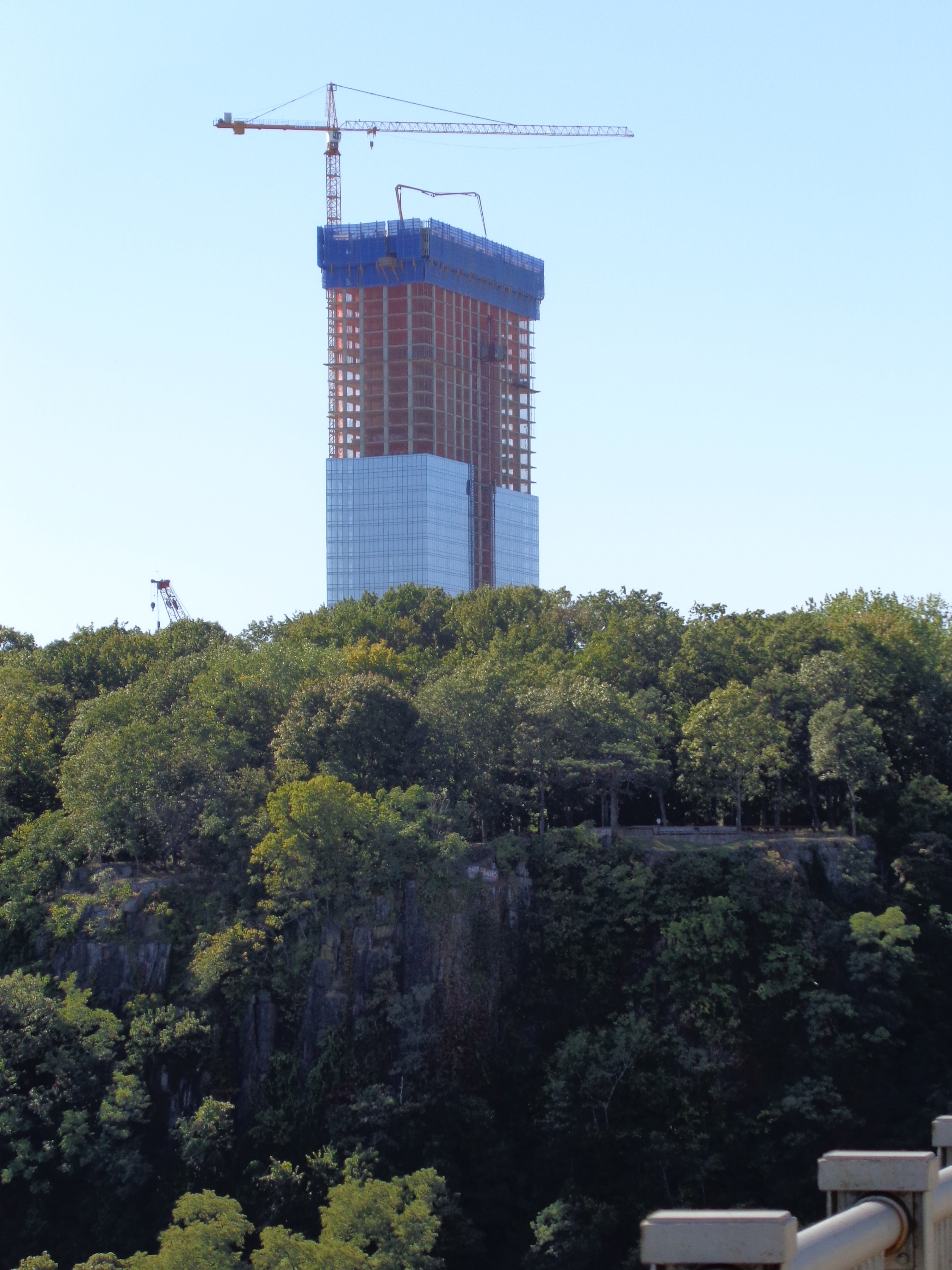 The Modern in Fort Lee under constrction will top-out at 47 storeys